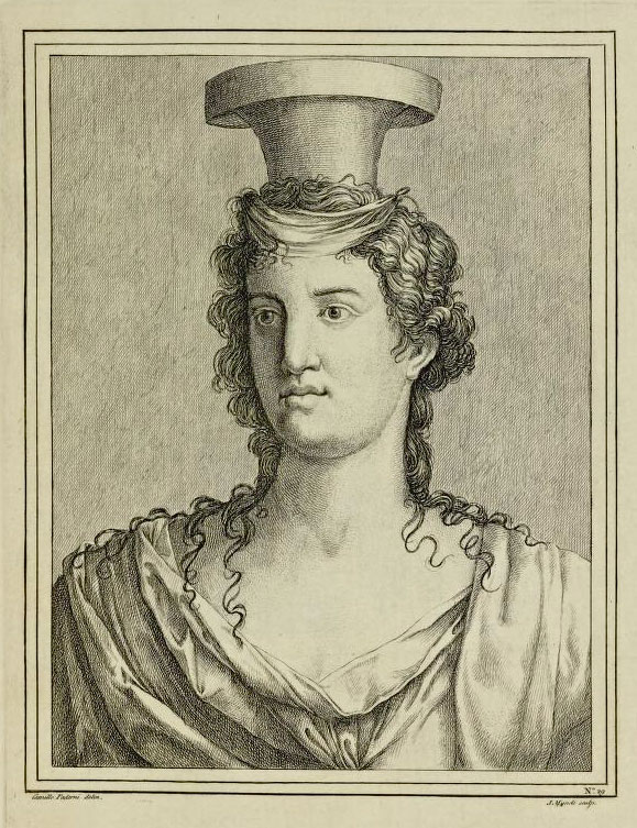 Drawing by Camillo Paderni